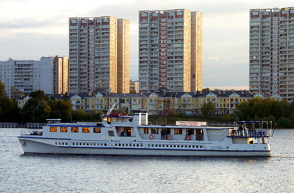 "KNYAGINYA OLGA" on Khimki reservoir in Moscow (2005). Project 780-3